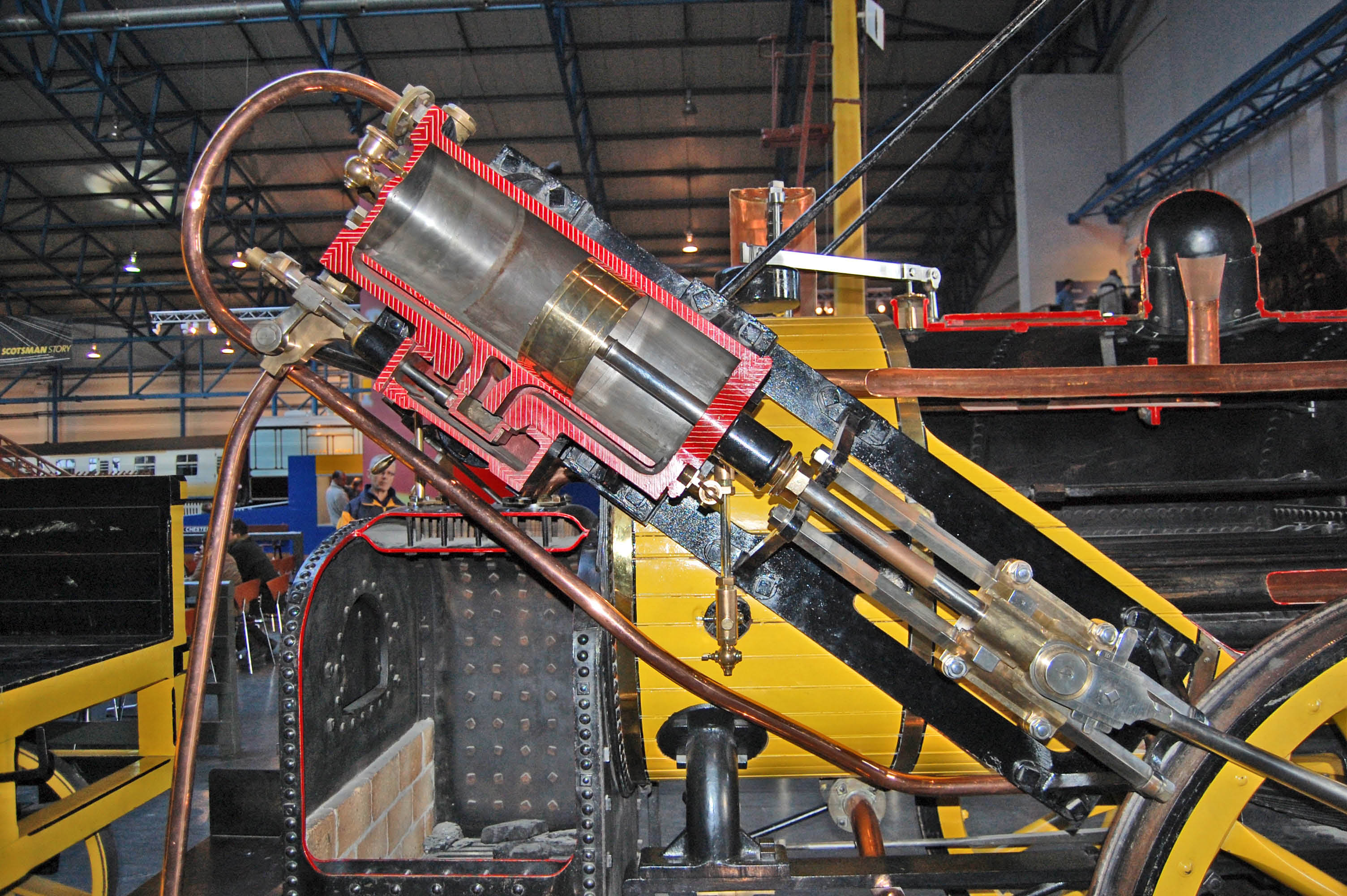 A view of cylinder of the replica Stephenson's Rocket steam engine cut away to show the interior. The piston and the steam valve are clearly visible. To the left is the firebox and to the right the boiler showing the steam dome and the boiler tubes below it.